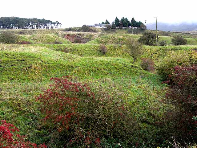 Clowsgill Quarry One of the numerous old limestone quarries to the south of Hallbankgate. Some old limekilns can be seen in the middle distance. Clesketts NY5858 lies beyond.